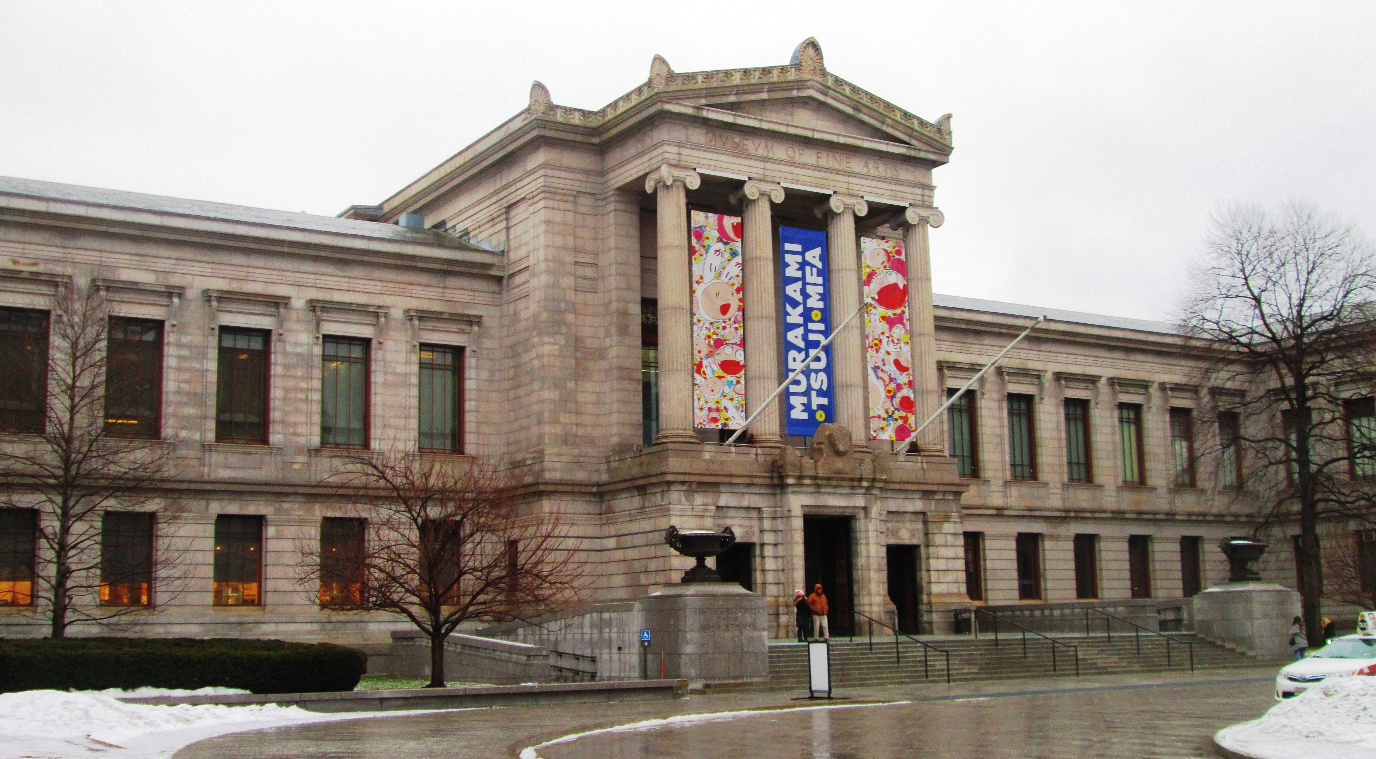 The Museum of Fine Arts in Boston, Massachusetts was founded in 1870 and was located on the top floor of the Boston Athenaeum. It moved to a building on Copley Square at Dartmouth and St. James Streets in 1876. Its current Classical Revival building on Huntington Avenue in the Fenway-Kenmore neighborhood was built in sections as funding became available. The initial section, on Huntington Avenue, was designed by Guy Lowell and was built in 1907-09. The wing on the Fenway opened in 1915, and the decorative Arts Wing was built in 1928 and expanded in 1968. An addition designed by Hugh Stubbins and Associates was built in 1966-70, and another by the Architects Collaborative in 1976. The West Wing, now the Linde Family Wing for Contemporary Art, was designed by I. M. Pei and opened in 1981. The Tenshin-En Japanese Garden designed by Kinsaku Nakane opened in 1988, and the Norma Jean Calderwood Garden Court and Terrace opened in 1997. (Source: AIA Guide to Boston (2nd ed.))